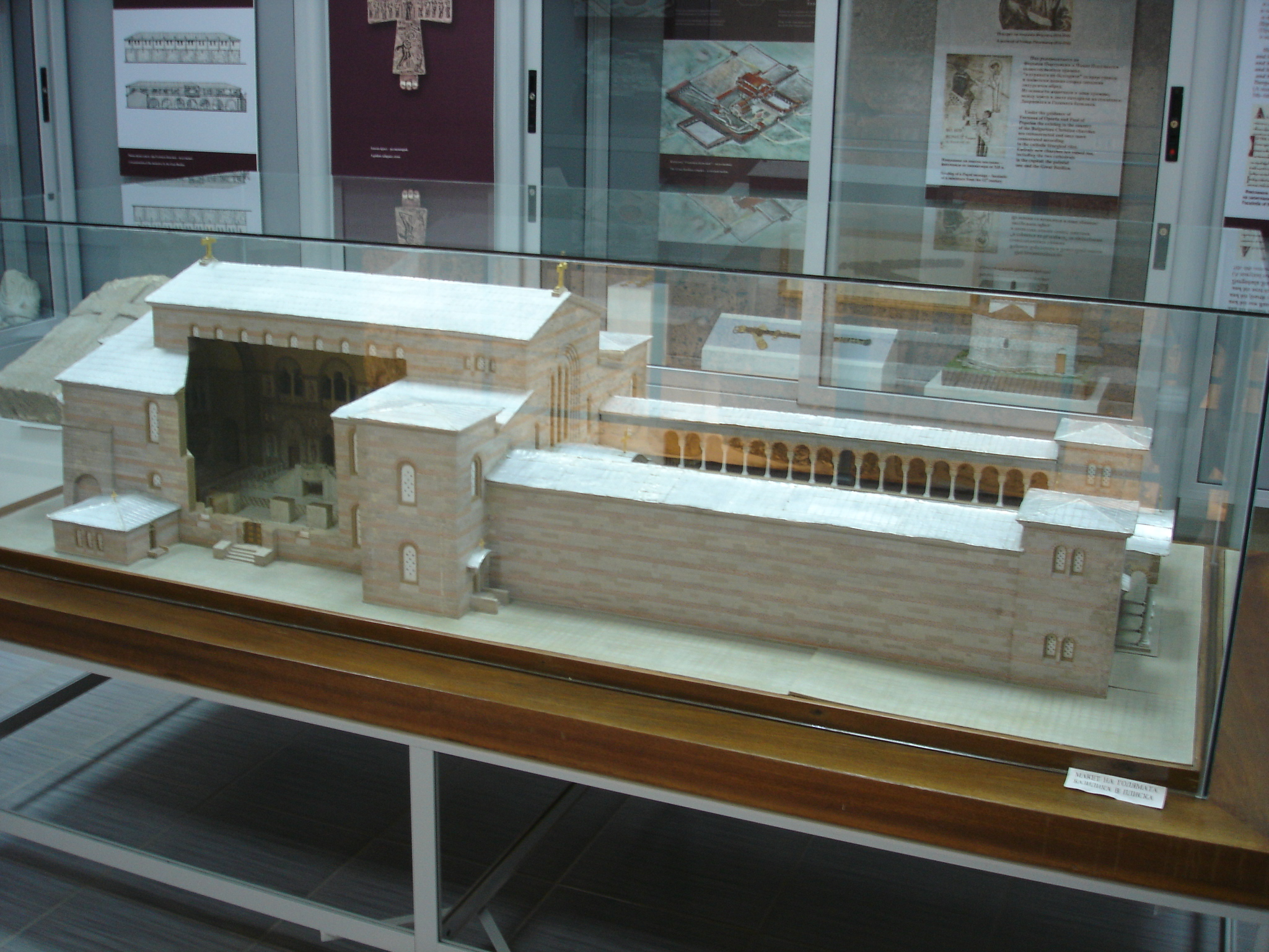 Old Basilica (Reconstruction) in First Bulgarian Capital Pliska